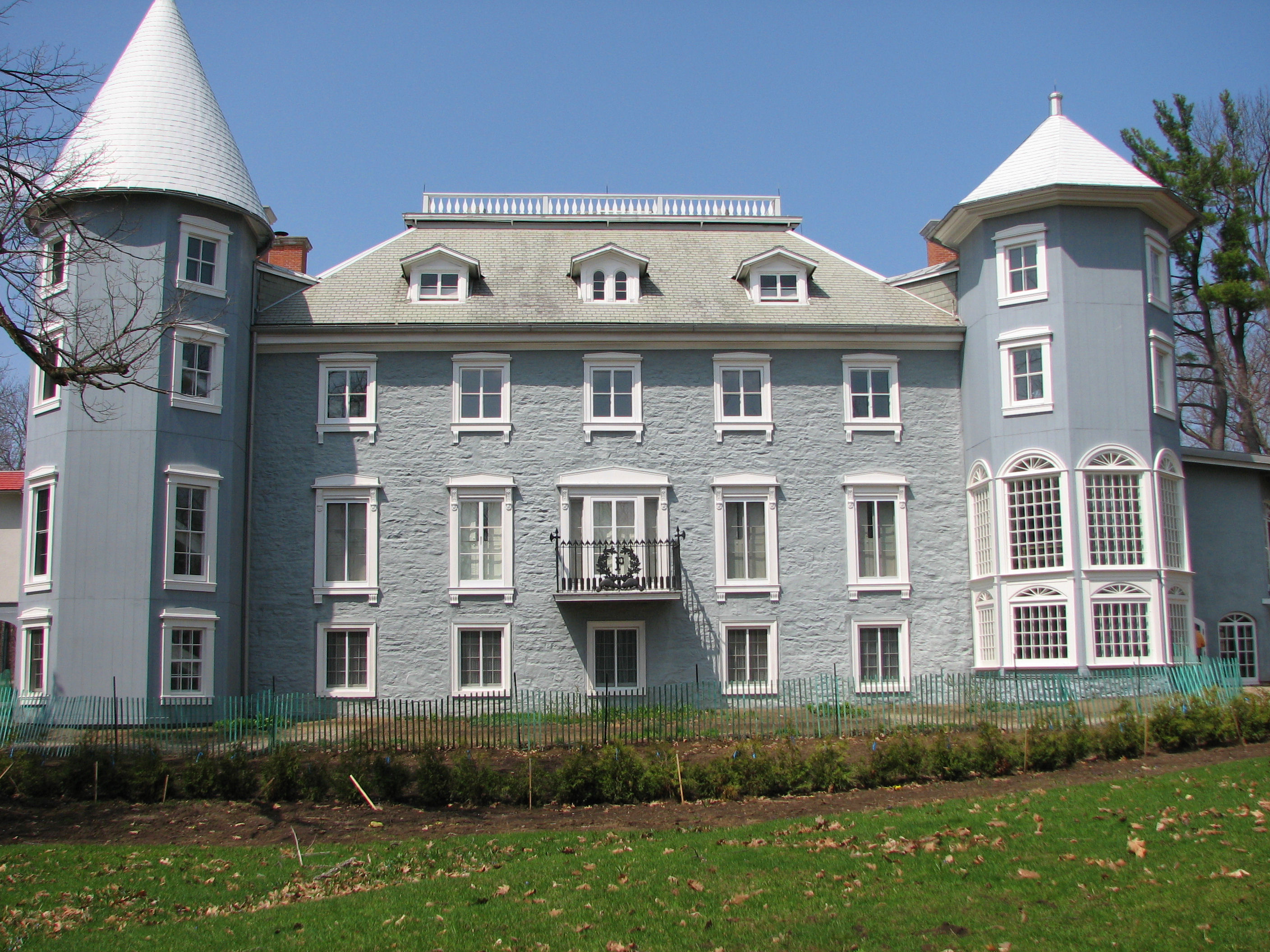 Papineau Mansion on grounds of Le Chateau Montebello, Montebello, Quebec, Canada